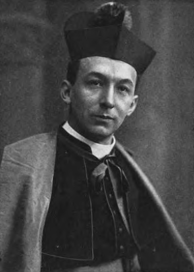 An image of Cardinal Mundelein taken from a 1914 publication entitled "The Catholic Church in the United States of America: Undertaken to Celebrate the Golden Jubilee of His Holiness, Pope Pius X, Volume 3." The image can be found on page 529.